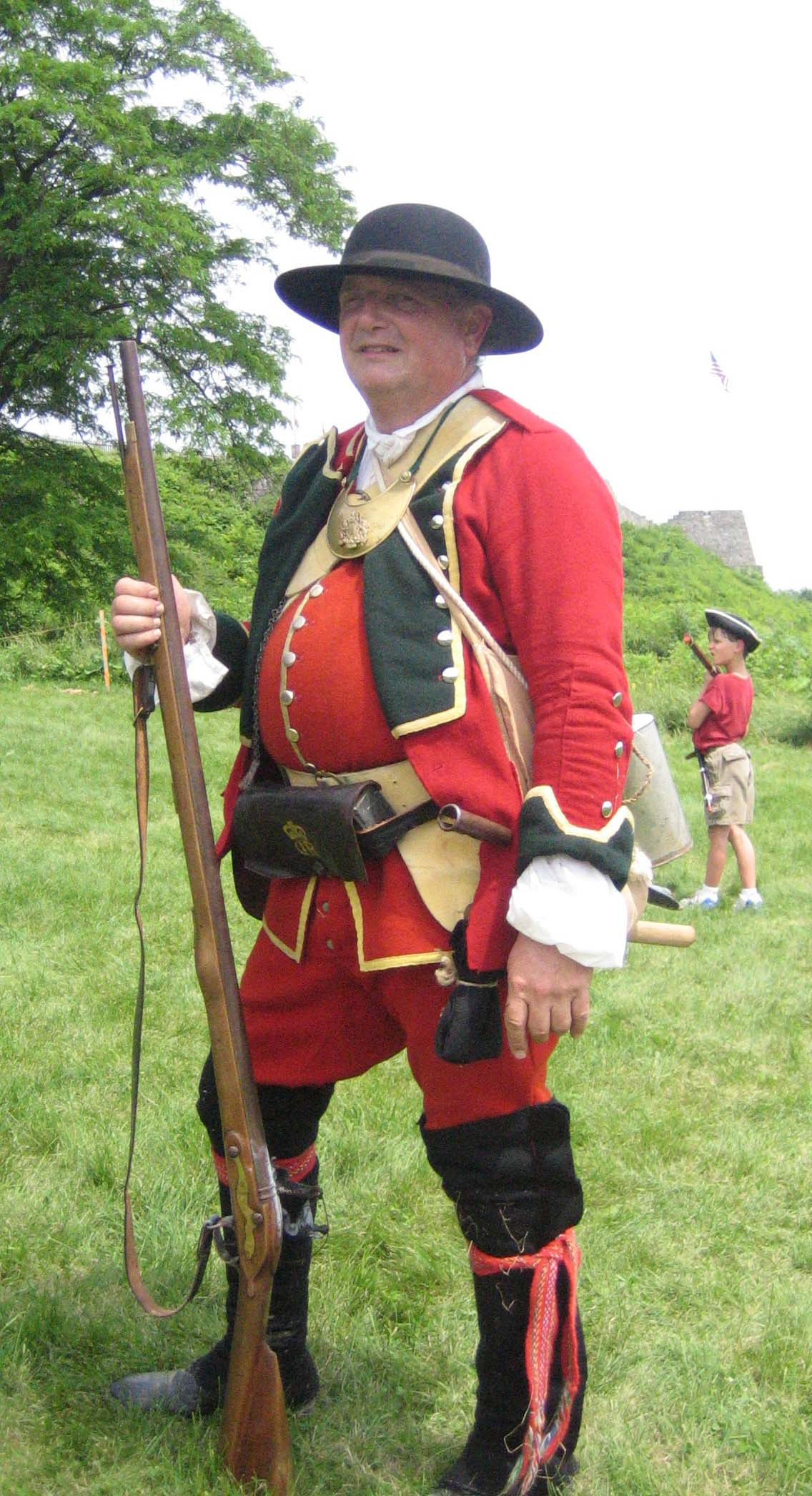 After the battle concludes at Ft. Ticonderoga in upstate New York, battle reenactor John Cook of Pawtuckett, RI departs the field. Cook wears a historically accurate British Regular uniform for the 44th Foot. A young observer of the reenactment stands behind him playing.